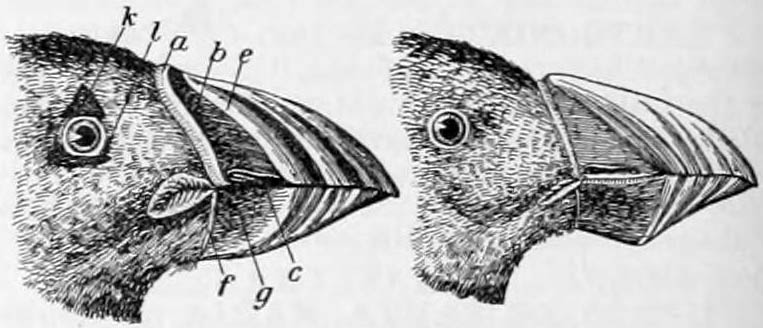 Drawing of two puffin (Fratercula arctica) heads, one showing the form of the beak during the mating season, the other showing the form of the beak in winter after molting